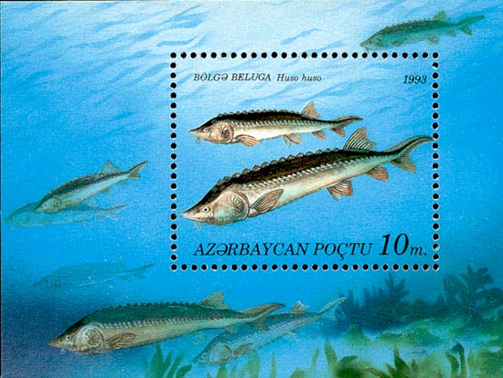 Stamp of Azerbaijan